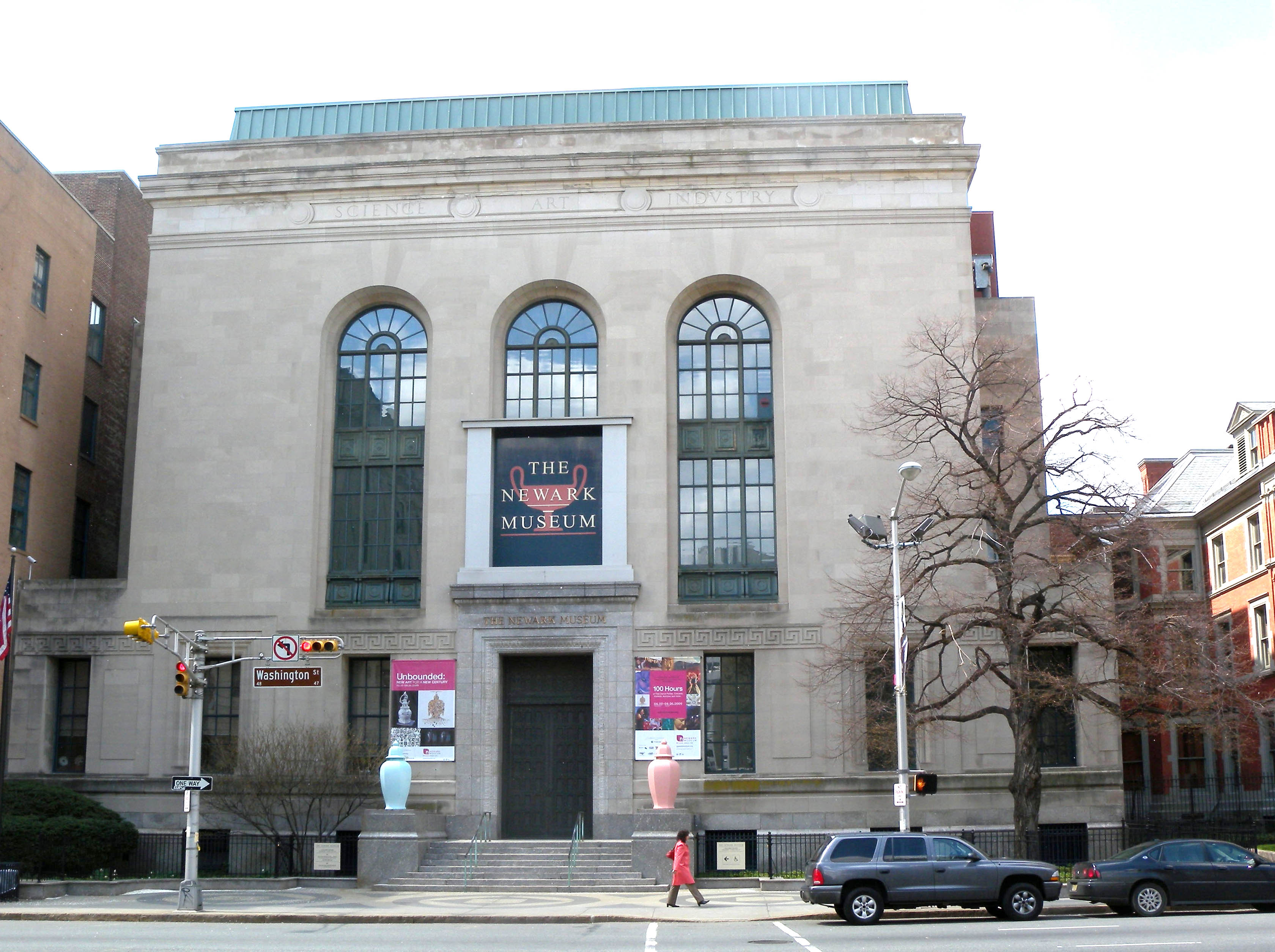 Looking northwest at Newark Museum from western corner of Washington Park on a sunny midday.